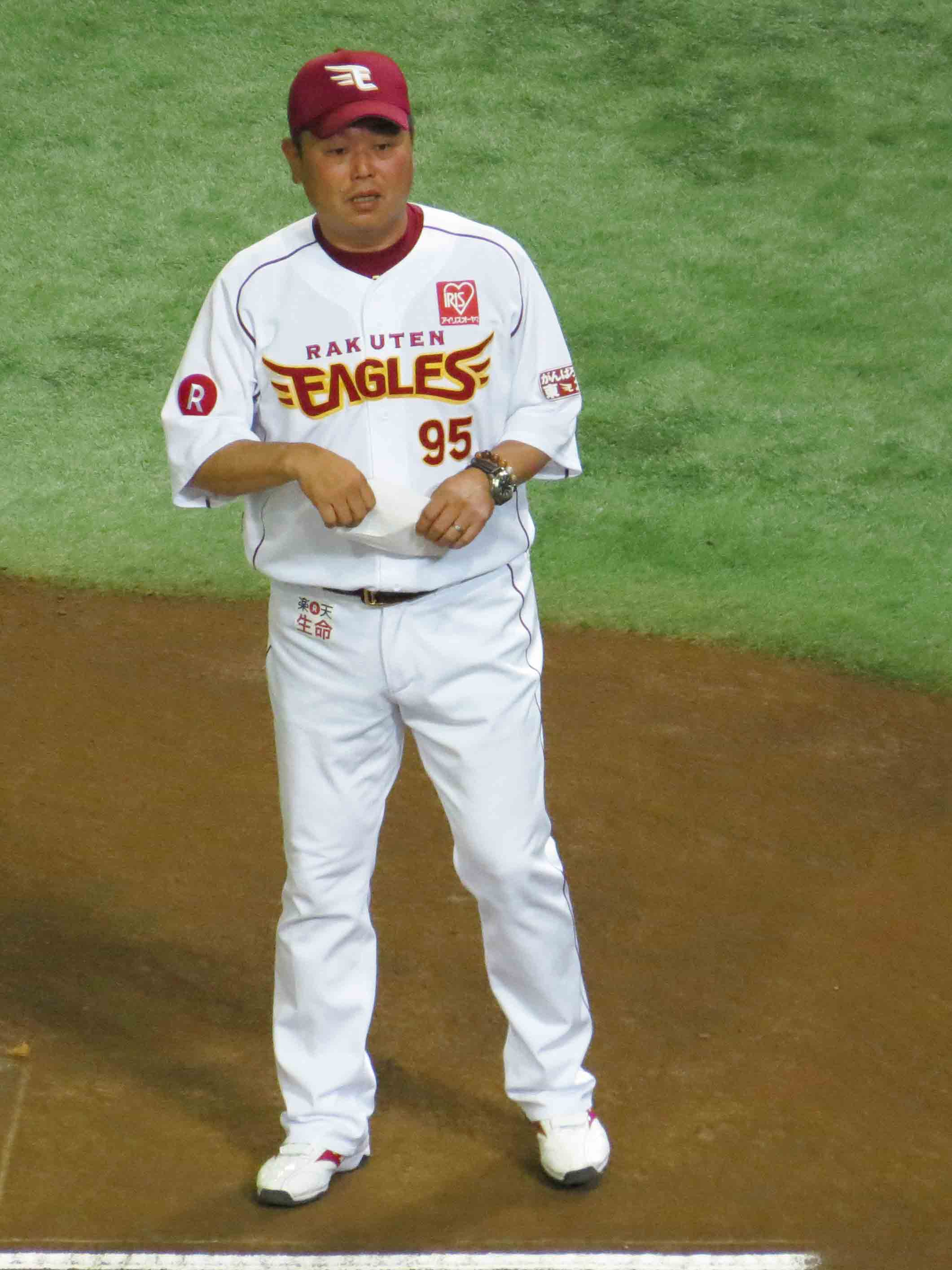 Hiromoto Okubo, manager of the Tohoku Rakuten Golden Eagles, at Tokyo Dome.